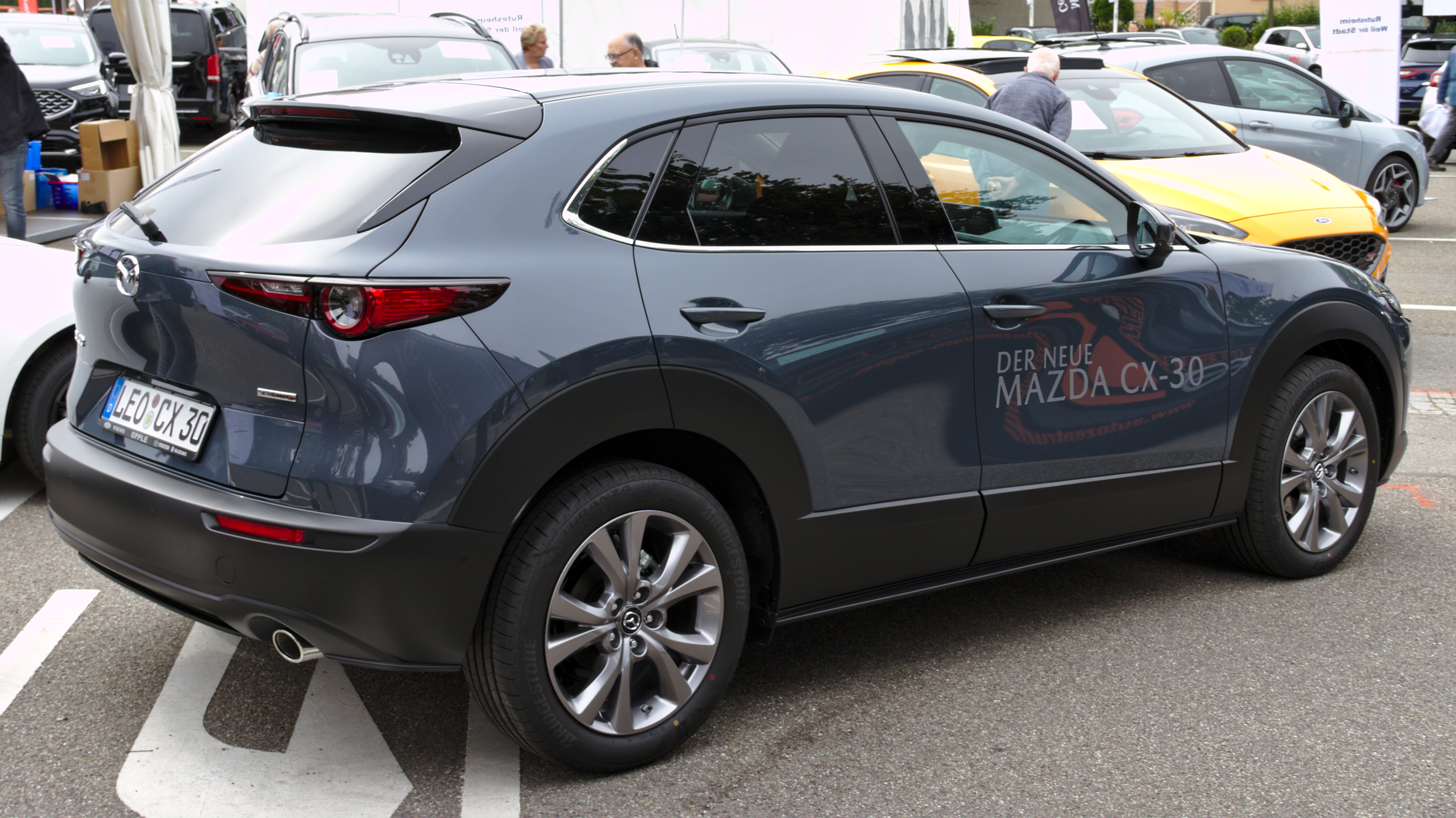 Mazda_CX-30 at Leonberger Autoschau 2019